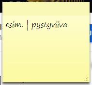 tämä on pystyviiva